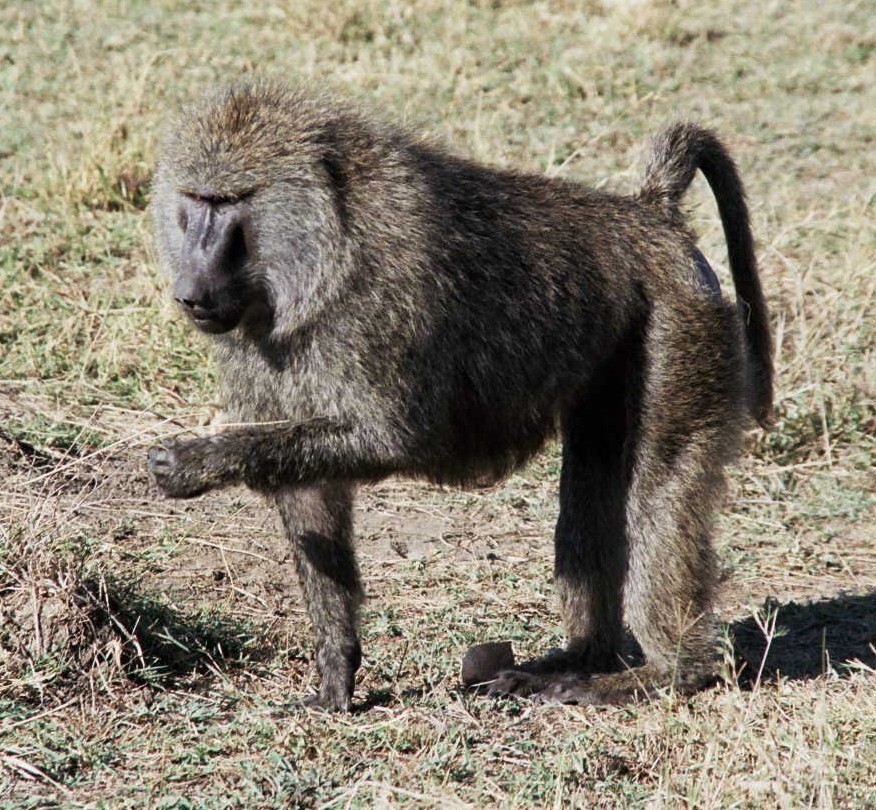 Olive Baboon, Serengeti NP, Tanzania